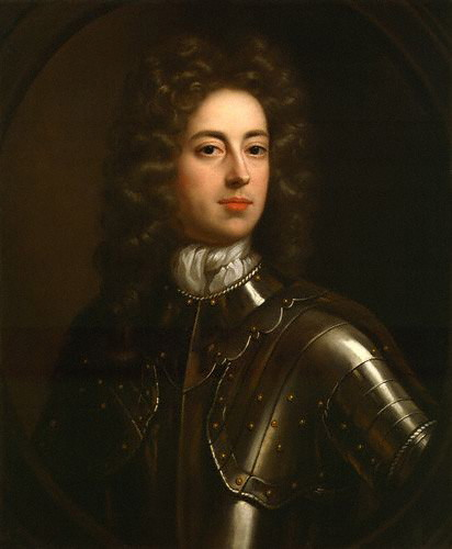 John Churchill, 1st duke of Marlborough in a portrait by John Closterman, after John Riley.